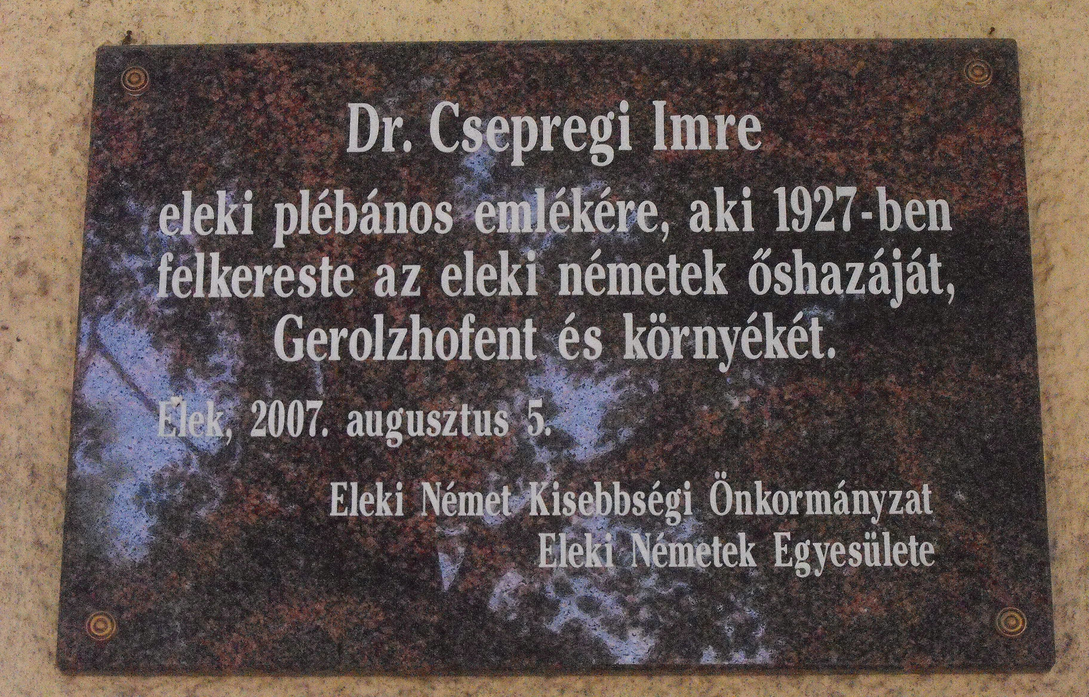 Memorial tablet of Imre Csepregi, parish priest, papal groom, judge of the Holy See in Elek, Hungary.